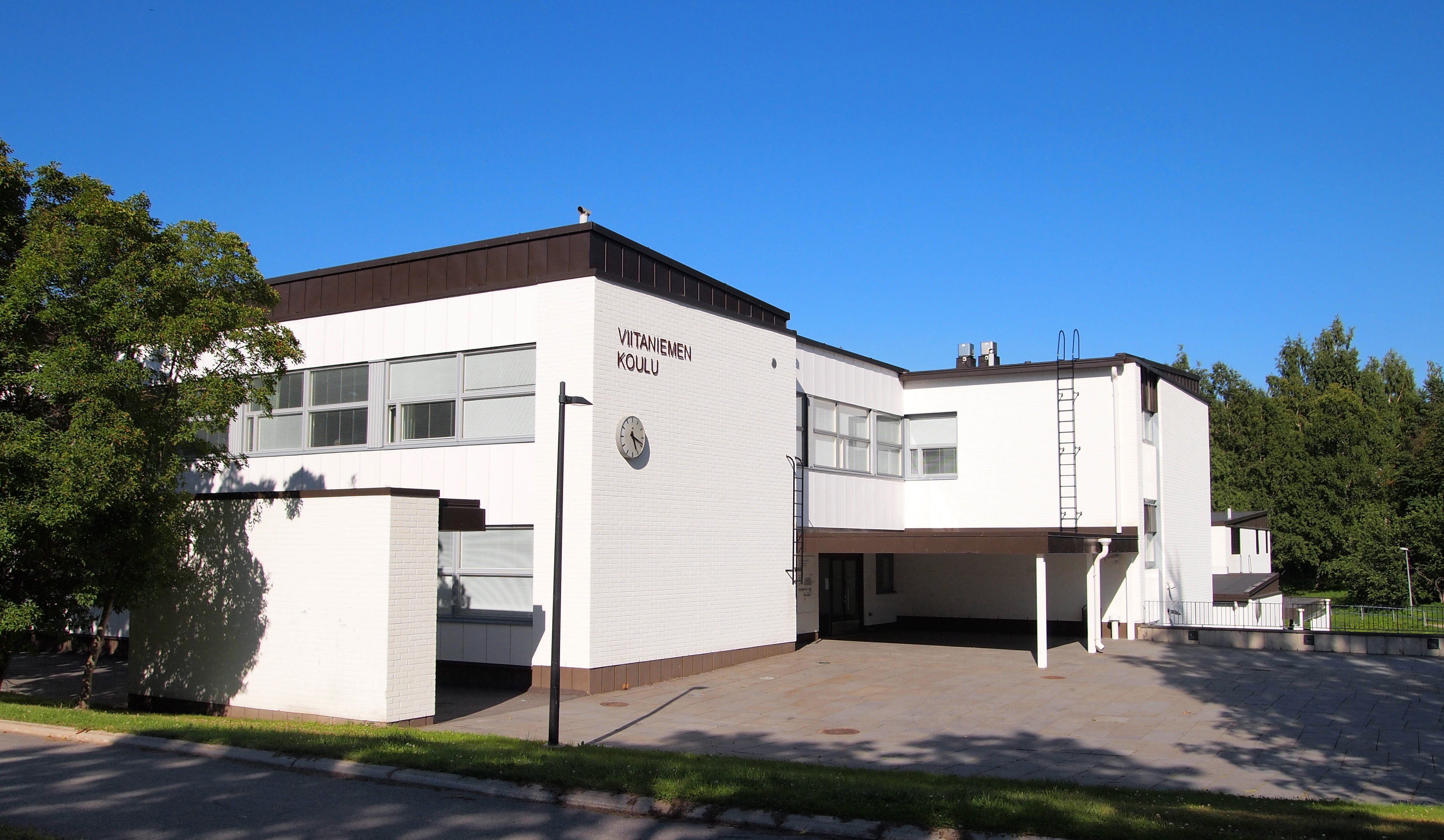 Shcool Viitaniemen koulu in Jyväskylä. This photograph was taken with an Olympus E-PL1